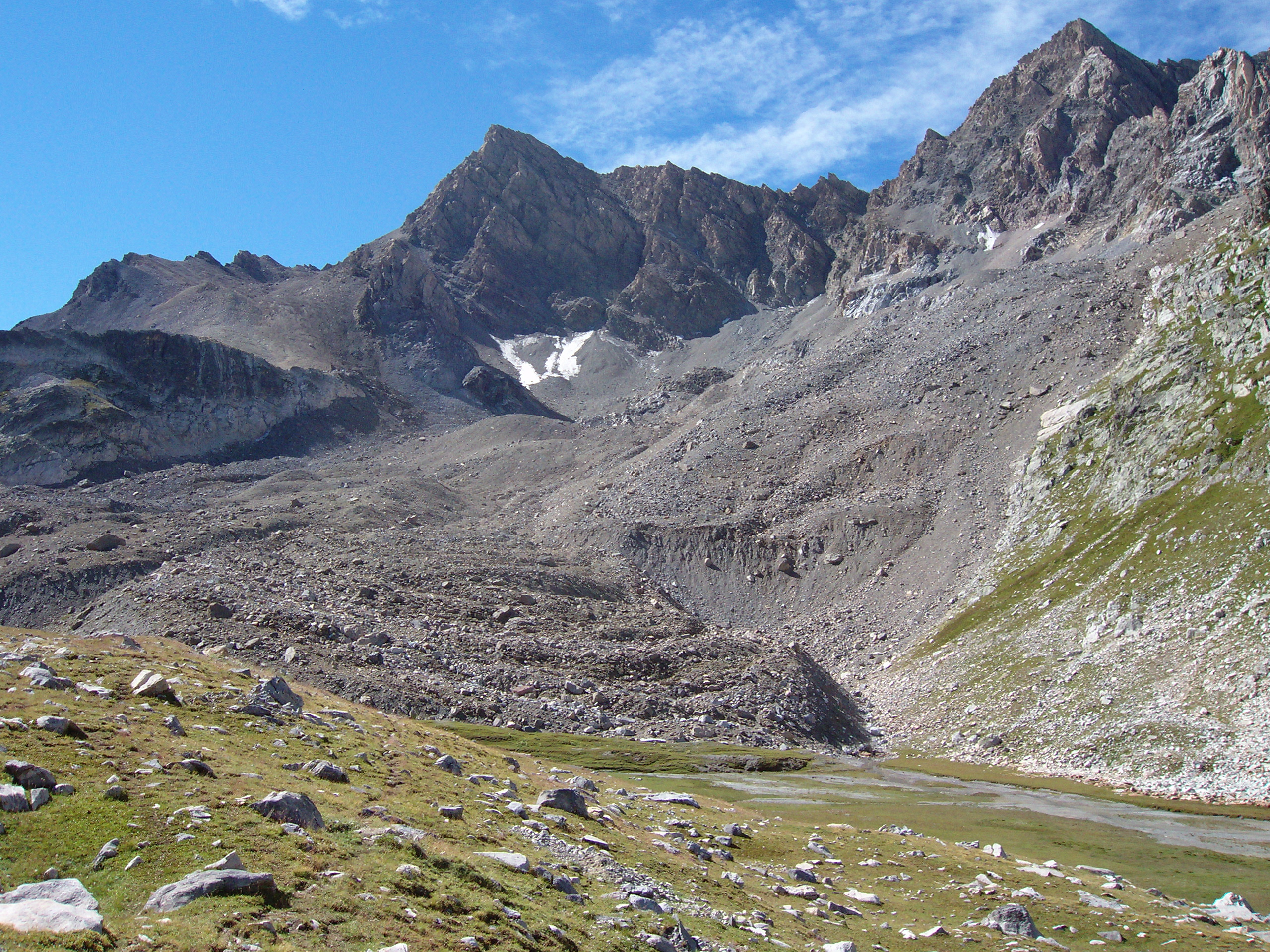 North face of the Aiguille du Chambeyron (right) and pointe des Cirques (left), with Marinet glacier in front (mainly under rocks).